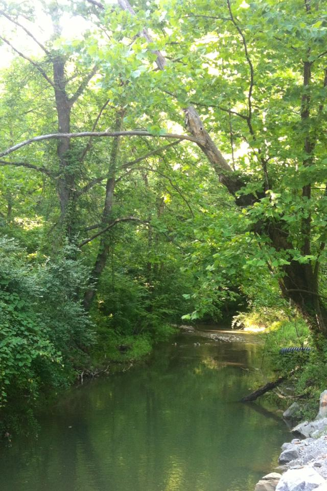 Kiahs Creek is a tributary of the East Fork of Twelve Pole Creek in Wayne County, WV.